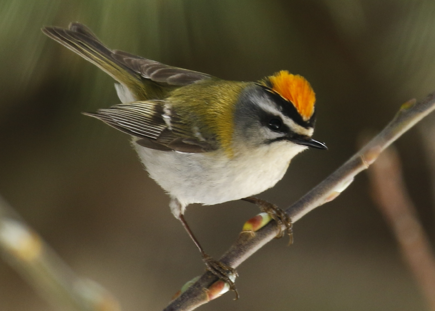 Pirin Mountains - Bulgaria